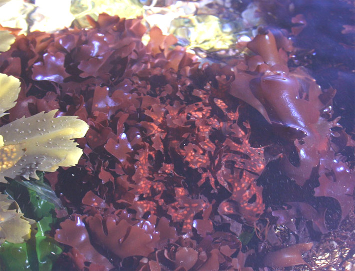 Irish moss